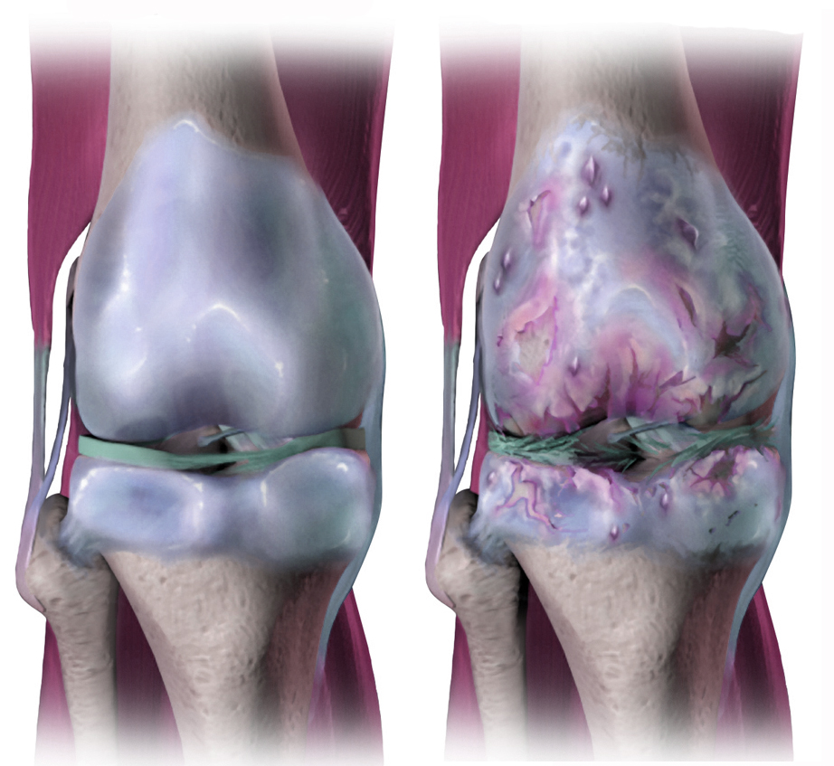 Osteoarthritis. This is an edited version of the source image made for use in the "Anatomist" iOS and Android app and shared here under the terms of the source image's Share Alike Creative Commons license.